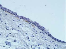 Histopathology of a dentigerous cyst, α-SMA immunohistochemistry.